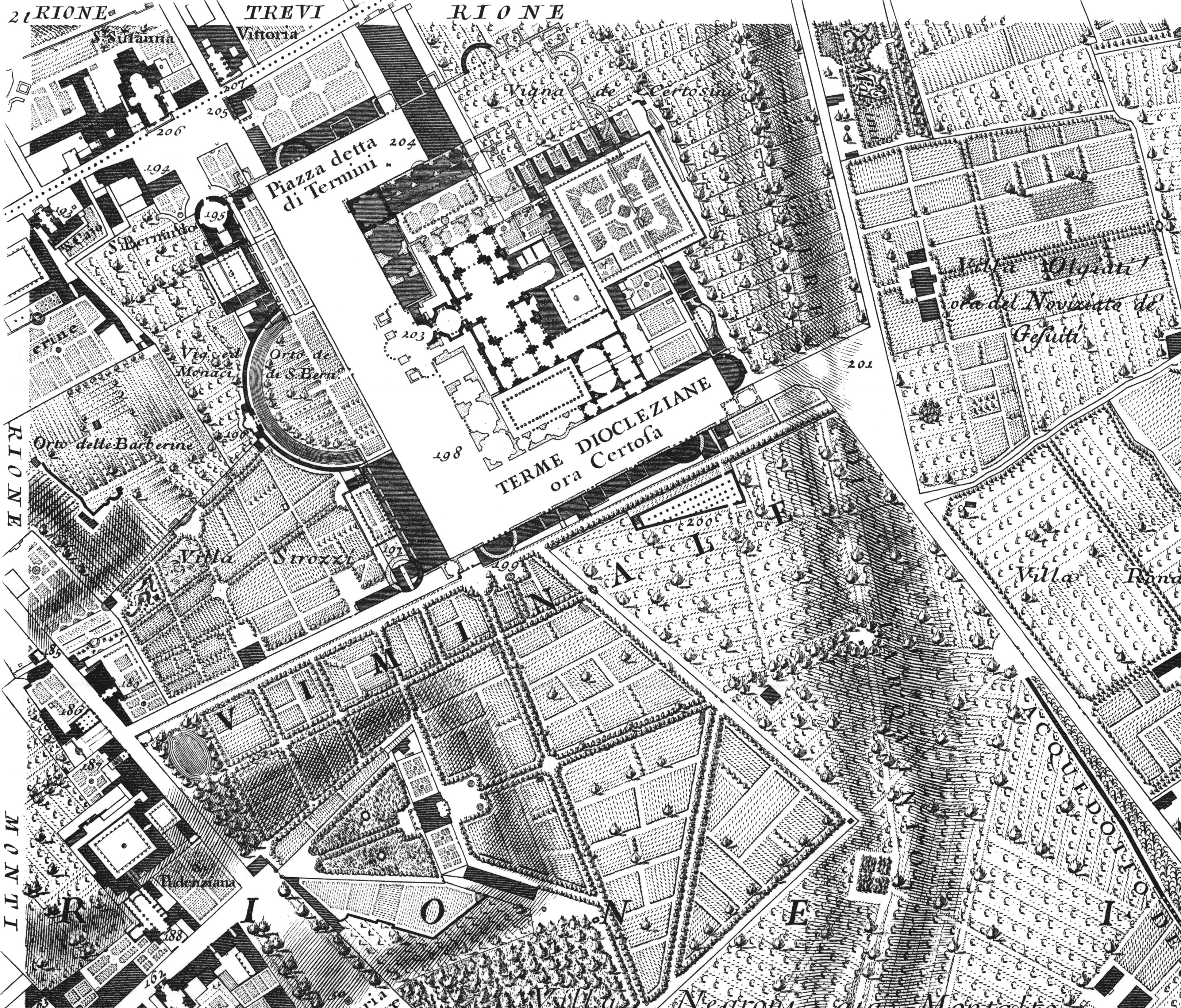 The New Plan of Rome by Giambattista Nolli part 6/12